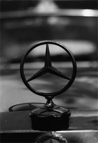 mercedes logo